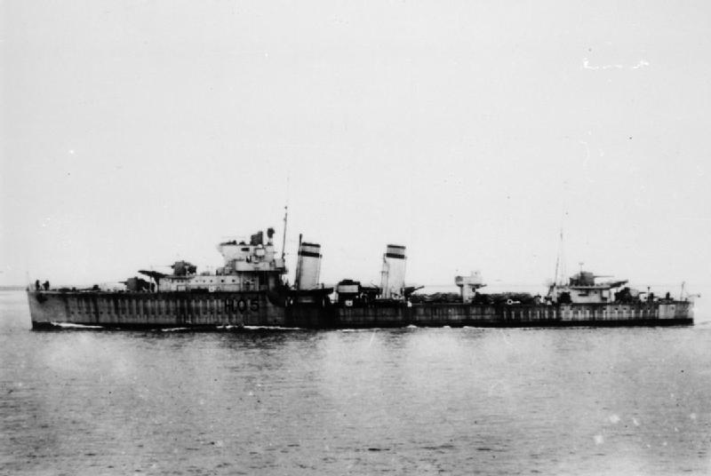 Photograph of British destroyer HMS Greyhound.